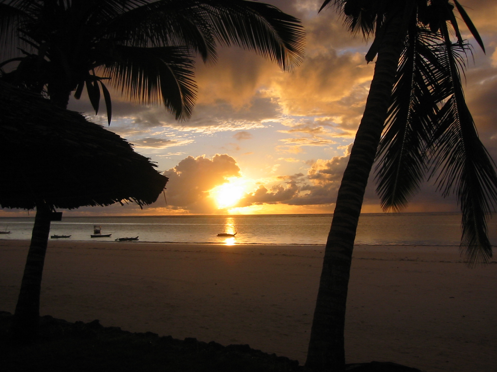 Sunrise at Mombasa